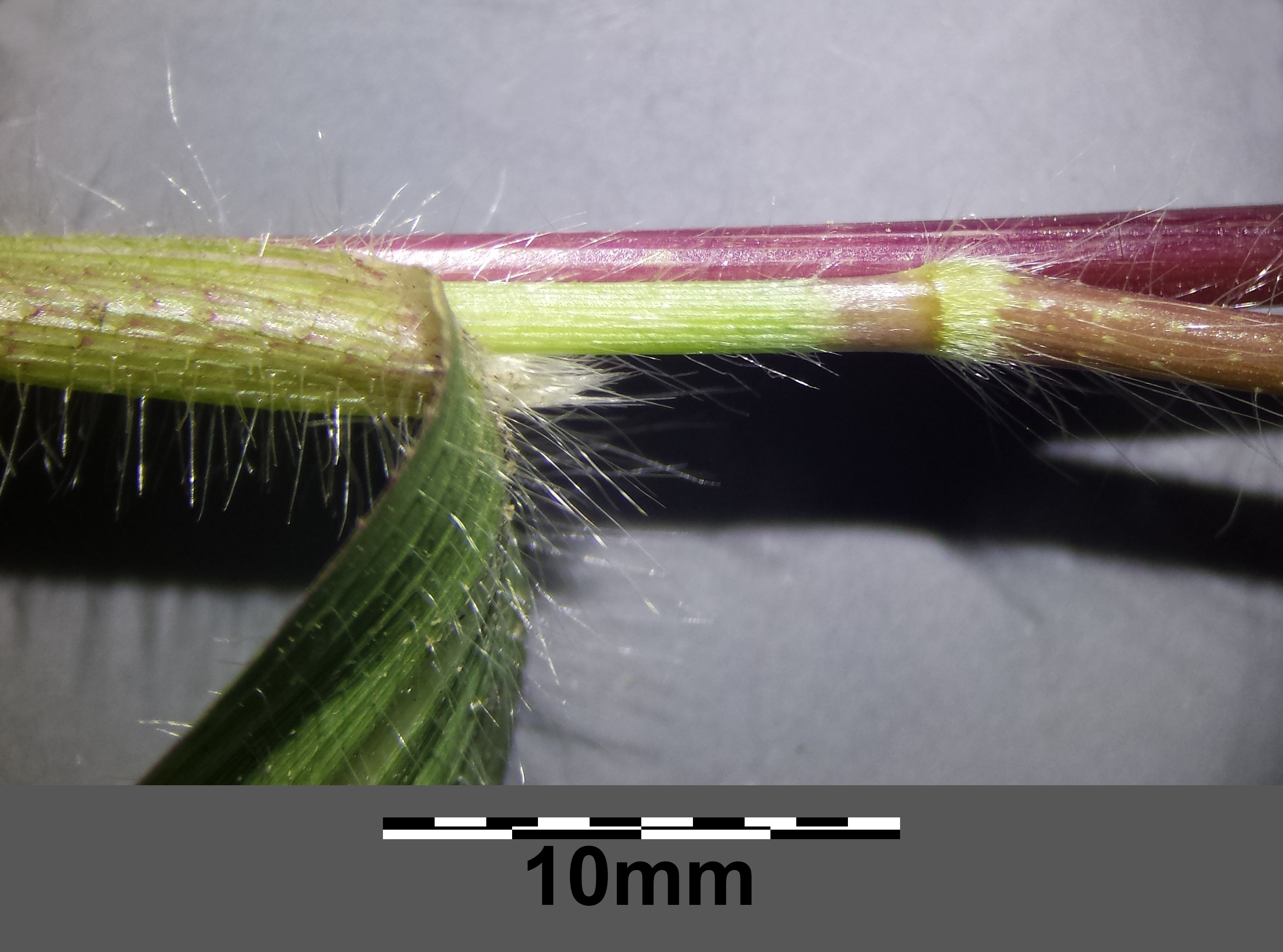 Stem with node and ligule Taxonym: Panicum miliaceum subsp. ruderale ss Fischer et al. EfÖLS 2008 ISBN 978-3-85474-187-9 Location: to the north of Oberthern, municipality Heldenberg, district Hollabrunn, Lower Austria - ca. 300 m ü. A. Habitat: field